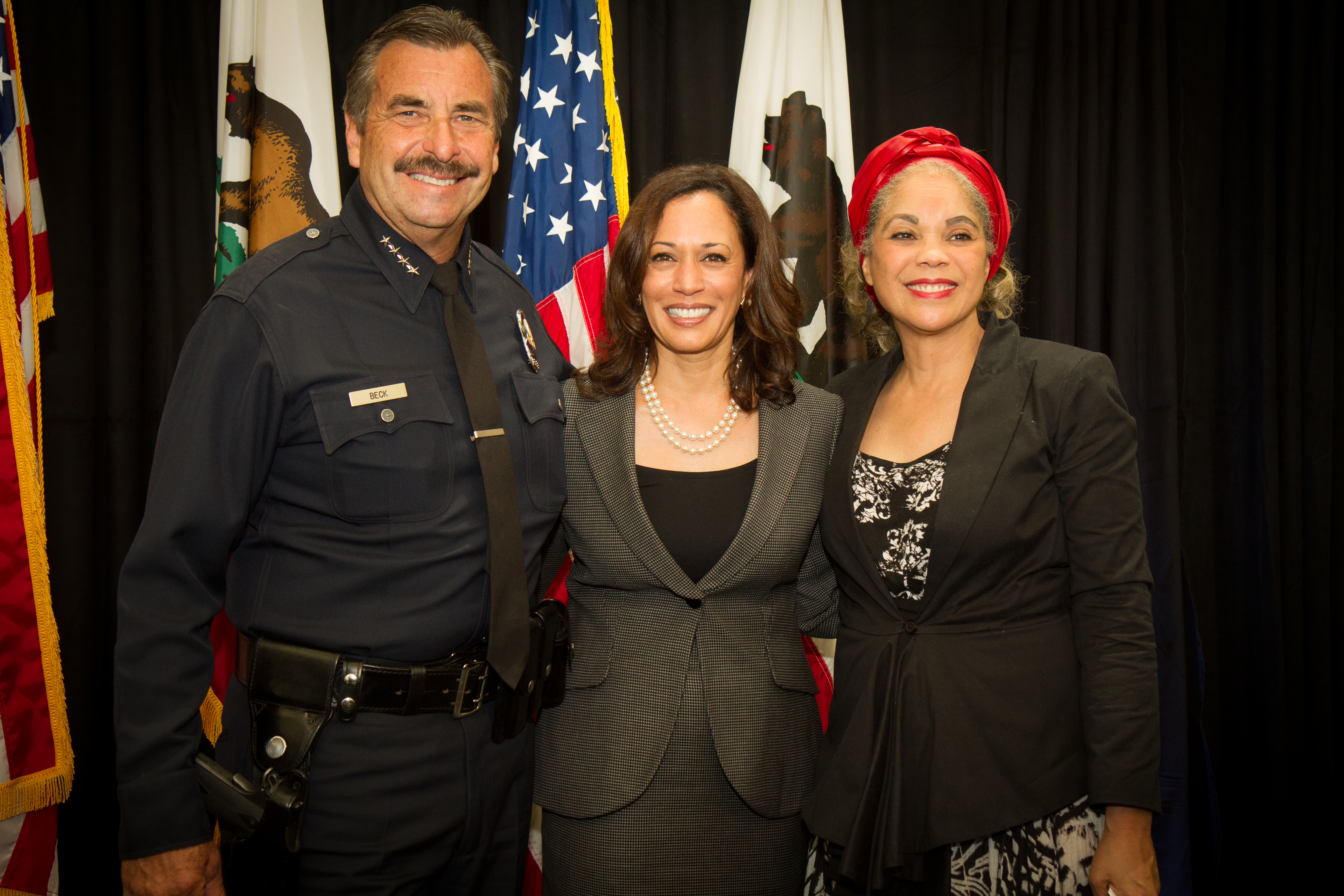 Attorney General Kamala D. Harris Delivers Remarks on 50th Anniversary of the Signing of the Civil Rights Act in Los Angeles on June 30, 2014.